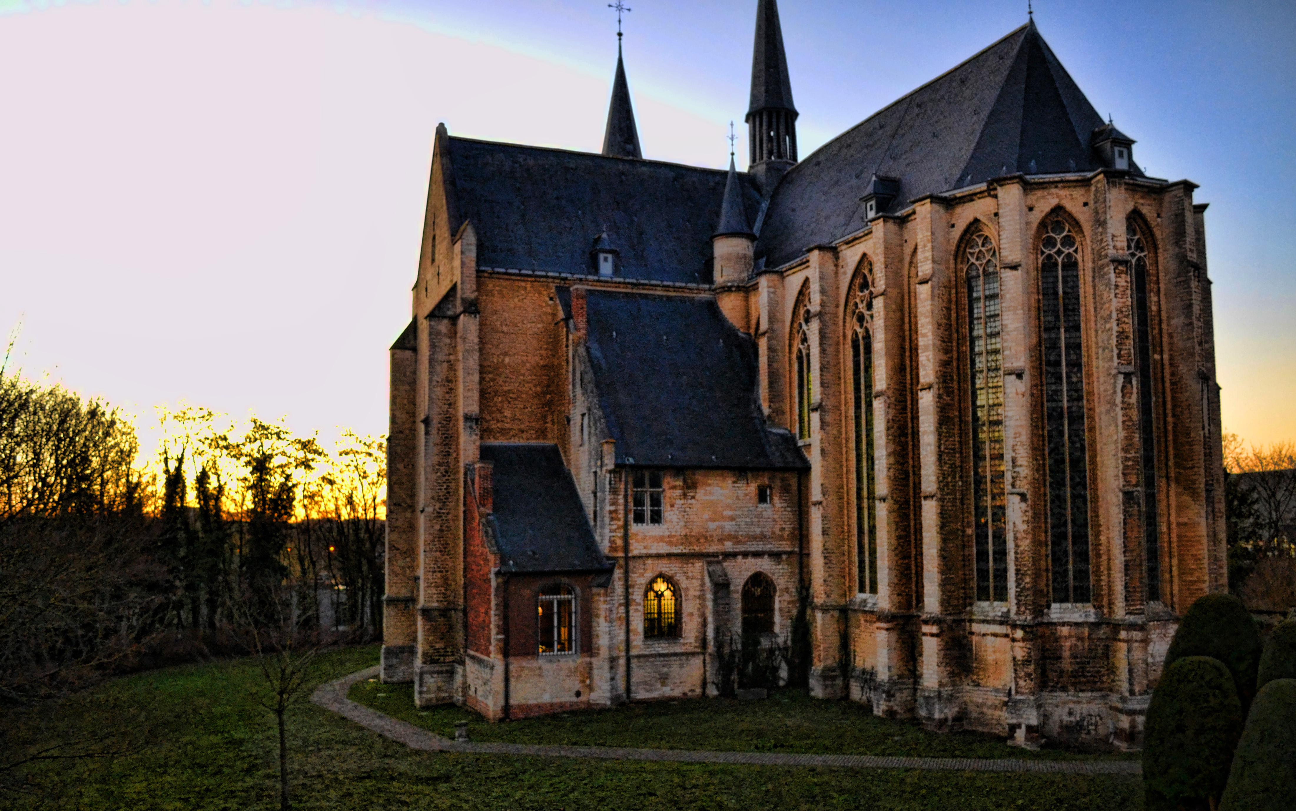 Saint Quentin's Church in Leuven, Belgium